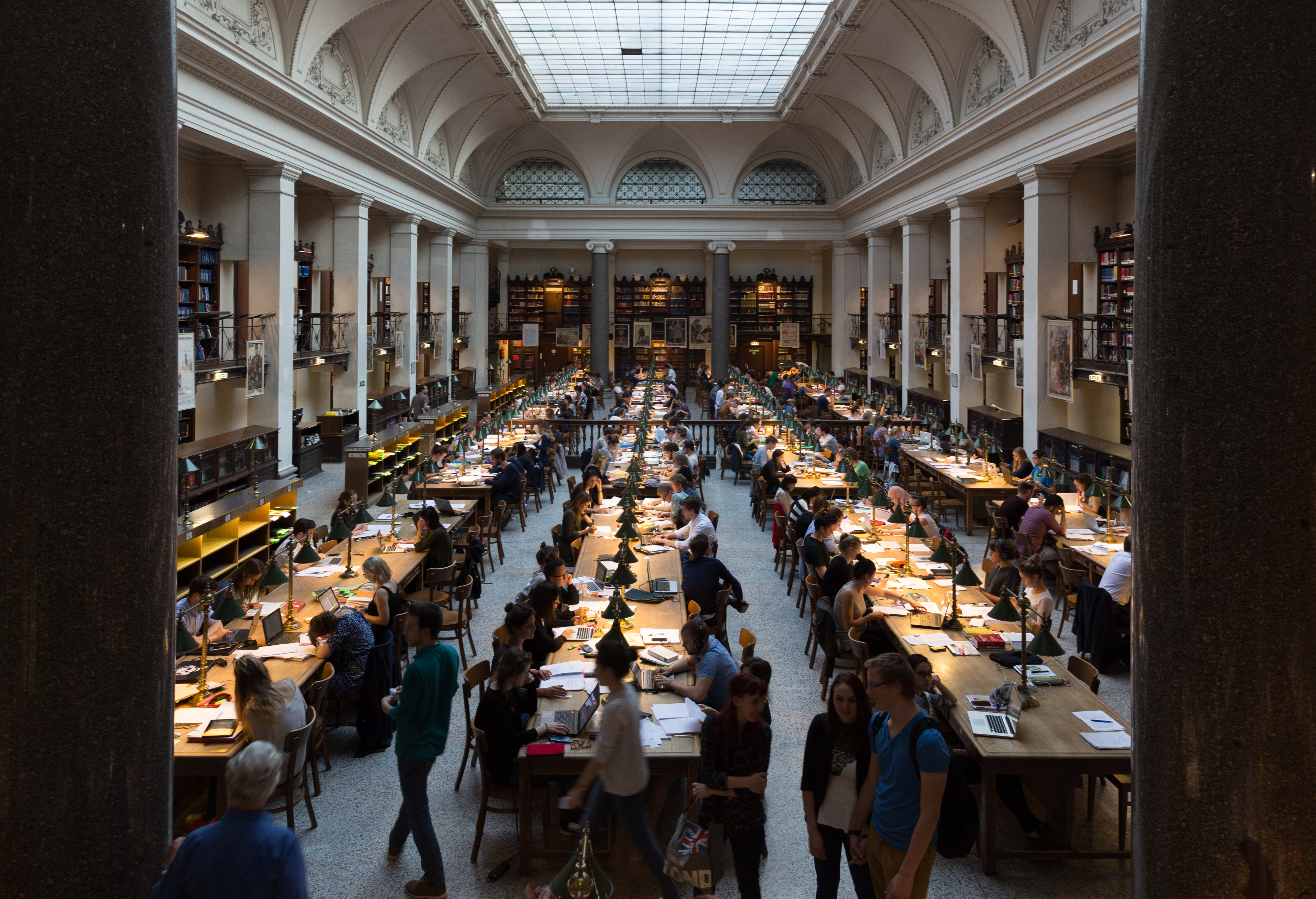 Main Library of the University of Vienna. Reading hall